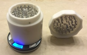 Fully functional prototype